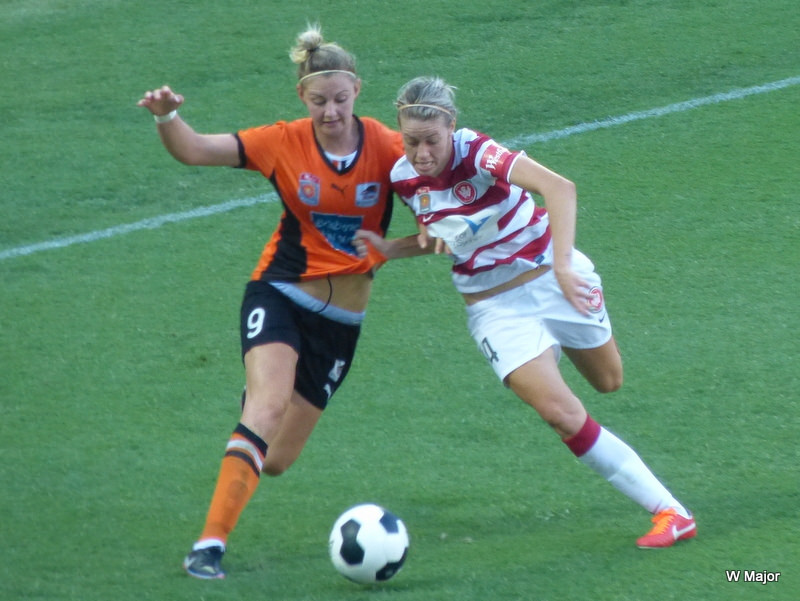 Larissa Crummer of Brisbane Roar defended by Alanna Kennedy of Western Sydney Wanderers.